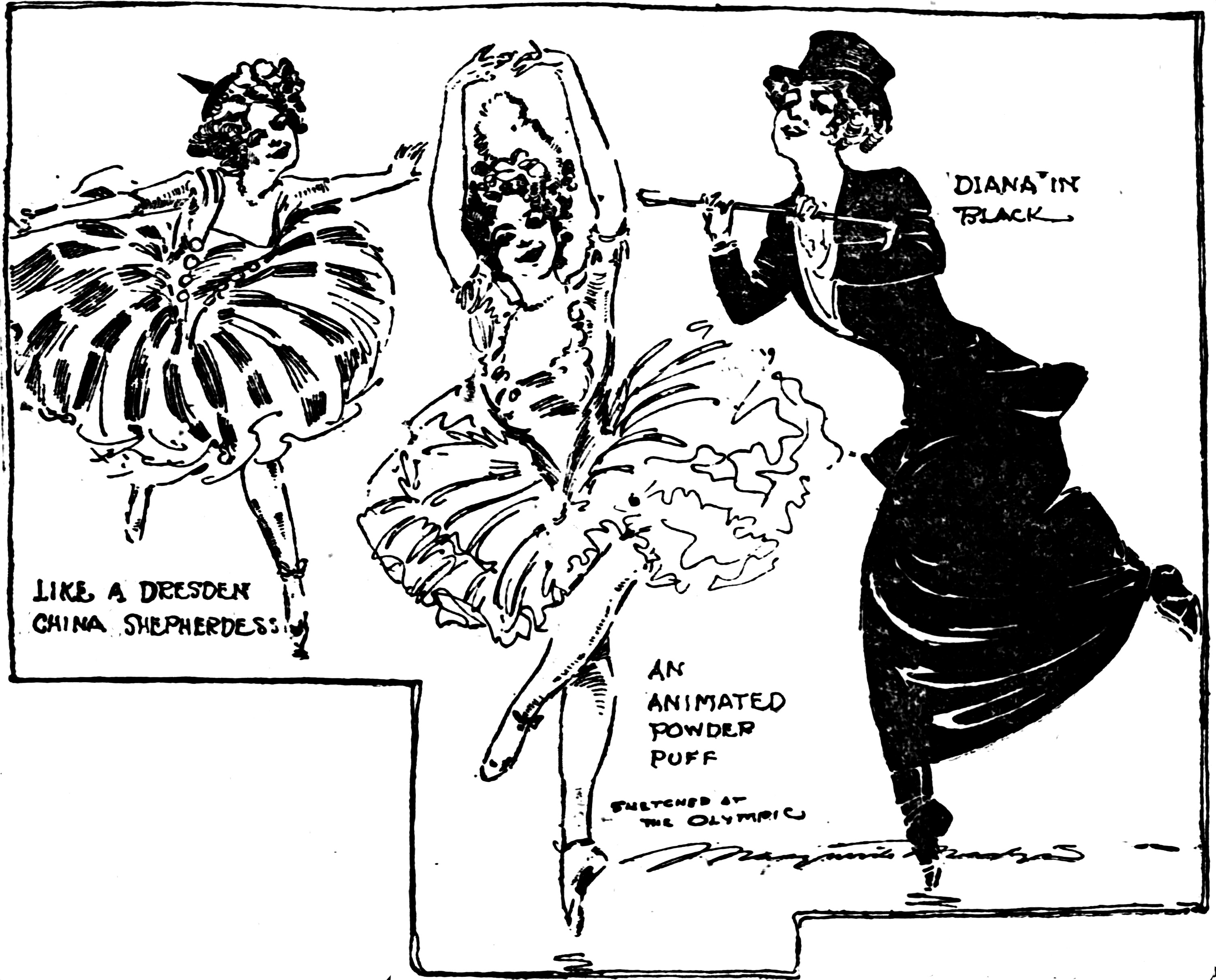 Three sketches of Adeline Genée by Marguerite Martyn , labeled “Like a Dresden China Shepherdness,” “An Animated Powder Puff,” and “‘Diana’ in Black." Sketched at the Olympic in St. Louis, 1909.